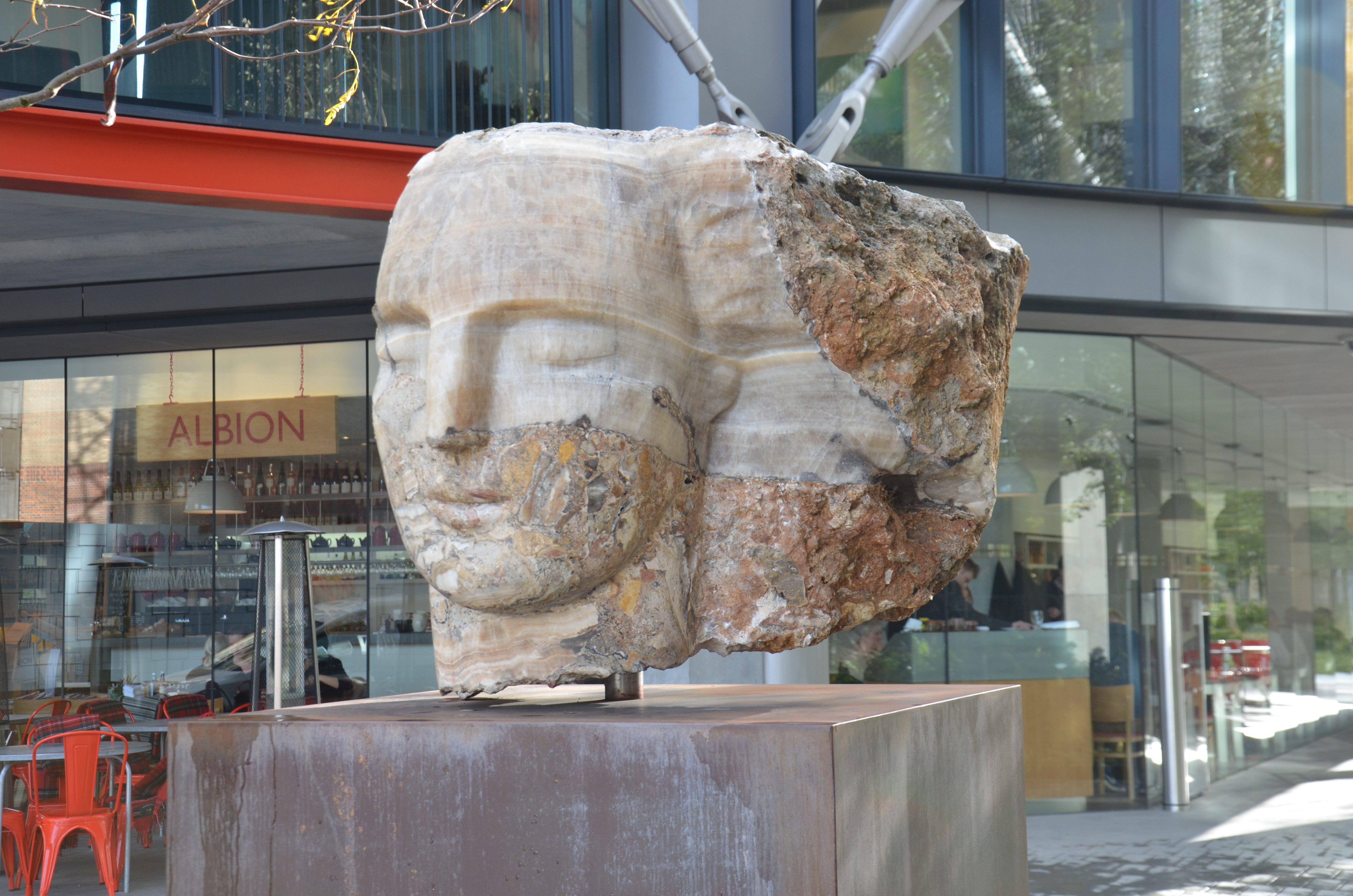 E,ily Young's Fana, Neo Southbank Apartments, Holland Street, Soutbank, London The photographic reproduction of this work is covered under United Kingdom law (Section 62 of the Copyright, Designs and Patents Act 1988), which states that it is not an infringement to take photographs of buildings, or of sculptures, models for buildings, or works of artistic craftsmanship permanently located in a public place or in premises open to the public. This does not apply to two-dimensional graphic works such as posters or murals. See Commons:Freedom of panorama#United Kingdom for more information. This work may not be available under a free license in the United States because it is based on an artwork or sculpture that may be protected by copyright under U.S. law. (Commons is hosted in the United States and as such U.S. law is applicable.) In the source country of the artwork or sculpture, taking photographs of such works permanently located in a public place does not generally infringe on their copyright, under a principle known as "freedom of panorama". In U.S. law there is no freedom of panorama for artwork or sculpture, and under the choice-of-law principle lex loci protectionis U.S. courts might apply U.S. freedom-of-panorama standards to this work, rather than the standards of the source country. However, in practice it is unsettled whether and how this approach would be applied in real world U.S. legal cases involving freedom-of-panorama elements. The current policy on Commons is to accept photos of artwork and sculptures that are covered by freedom of panorama in their source country. This policy may change in the future, depending on the outcome of community discussions and new case law. This is not a valid license tag on Commons; this file must be usable under freedom of panorama in its source country or it will be deleted.